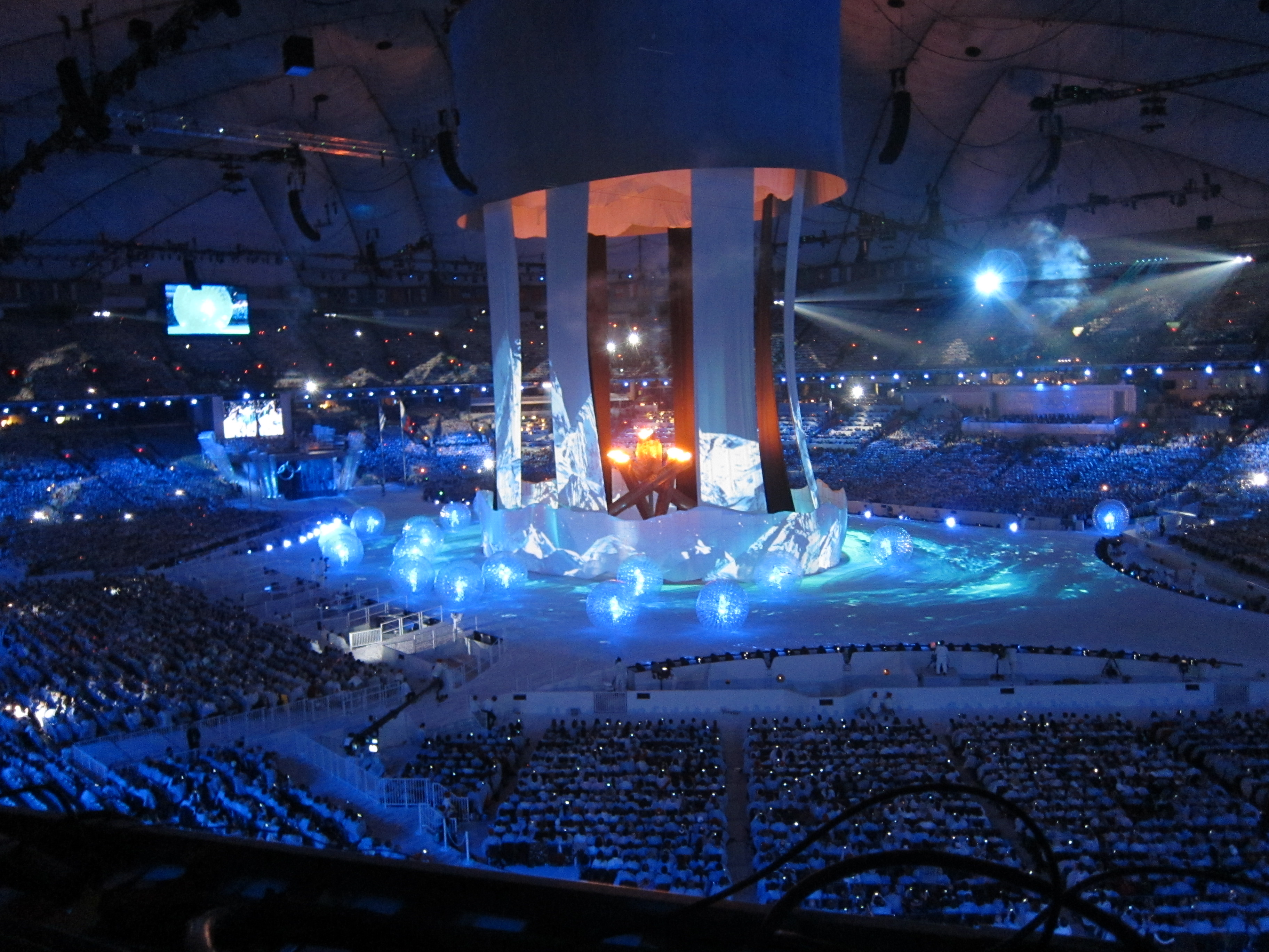 Closing Ceremonies of the Vancouver 2010 Winter Olympics. Taken during the Sochi 2014 presentation